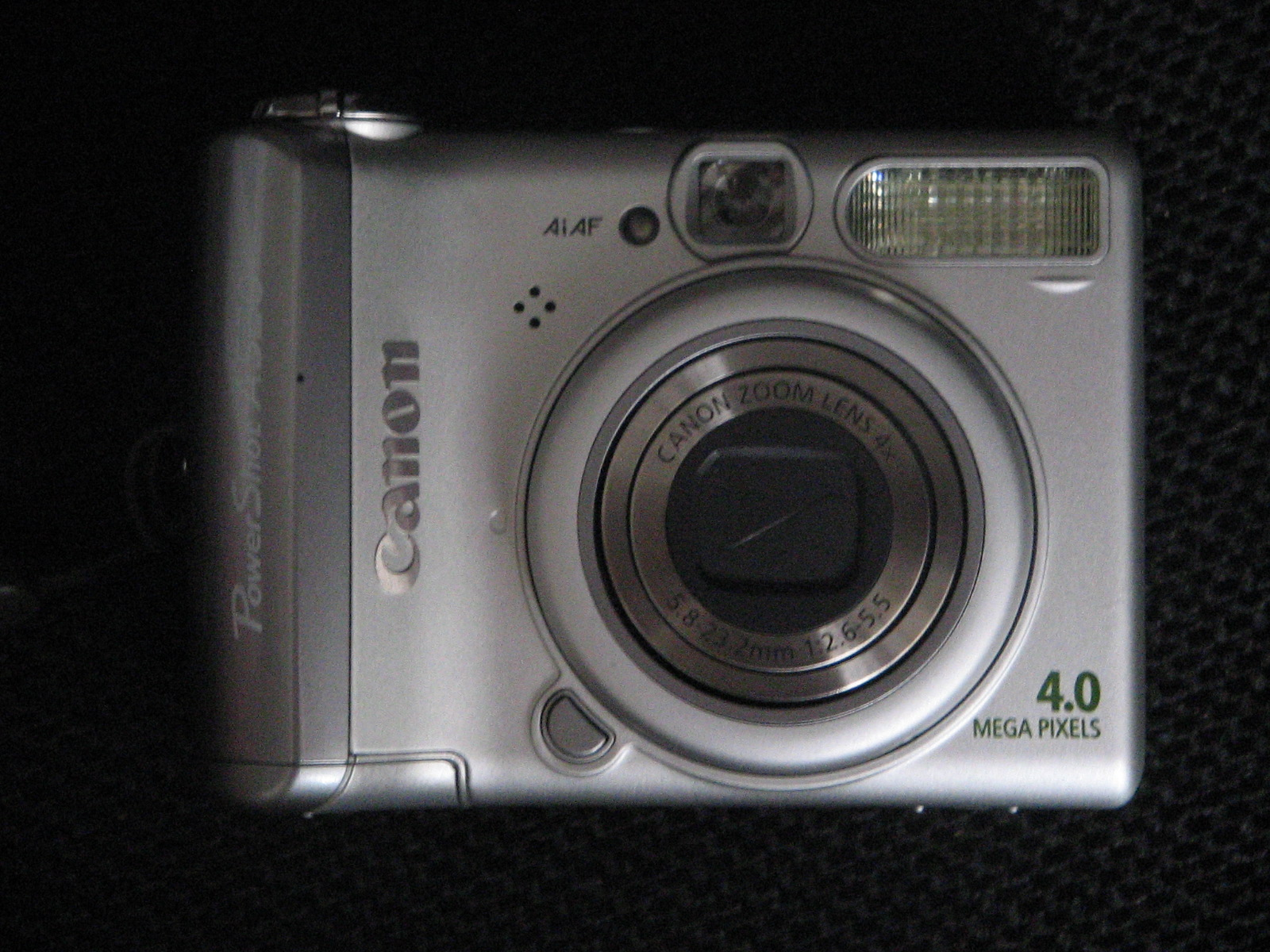 Canon PowerShot A520 digital camera